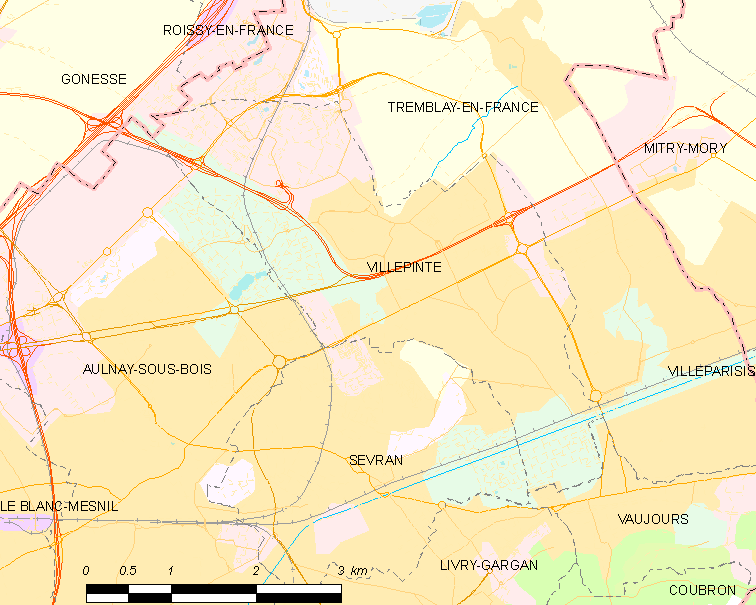 Map of French municipality Villepinte